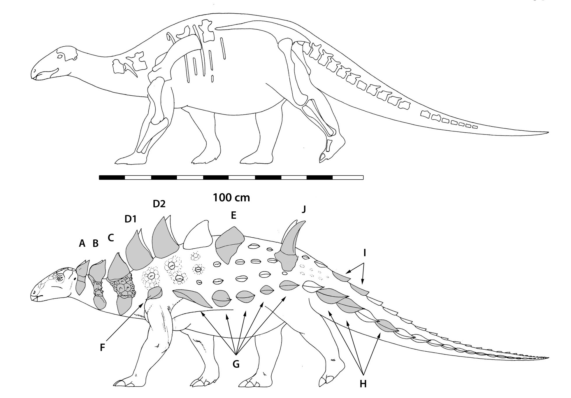 Above: Reconstruction of Struthiosaurus austriacus indicating skeleton elements present in the collection PIUW. Below: Reconstruction of Struthiosaurus austriacus with dermal armor. A-J (shaded parts) refer to dermal plates described in the text.